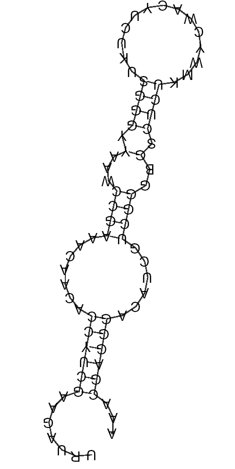 RNA secondary structure of TB6Cs1H1 generated by the WAR server( It is the consensus structure from several Trypansomatid species -Trypanosoma brucei, Trypanosoma brucei gambiense, Trypanosoma cruzi, Trypansoma vivax